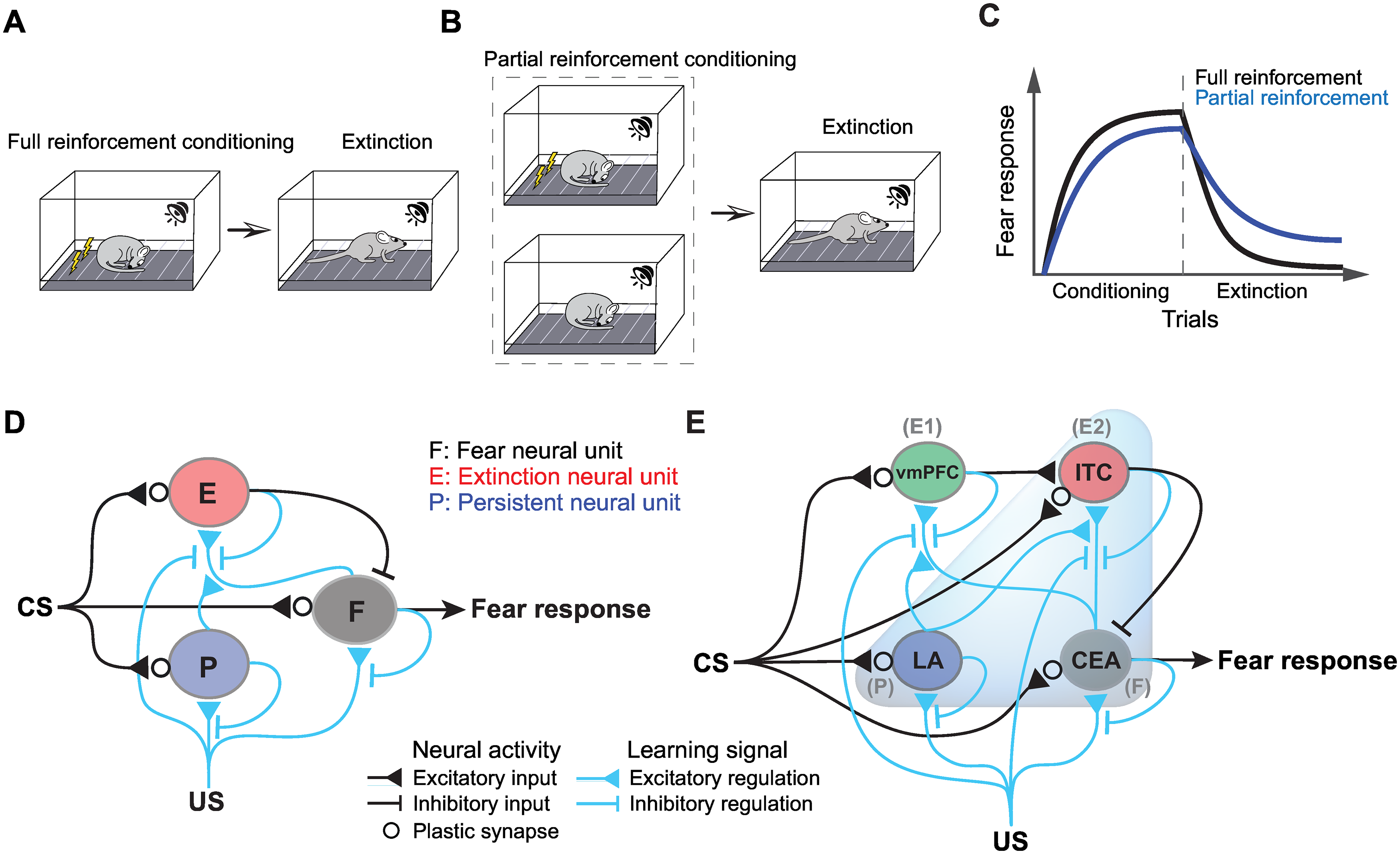 Li Y, Nakae K, Ishii S, Naoki H (2016) Uncertainty-Dependent Extinction of Fear Memory in an Amygdala-mPFC Neural Circuit Model. PLoS Comput Biol 12(9): e1005099.